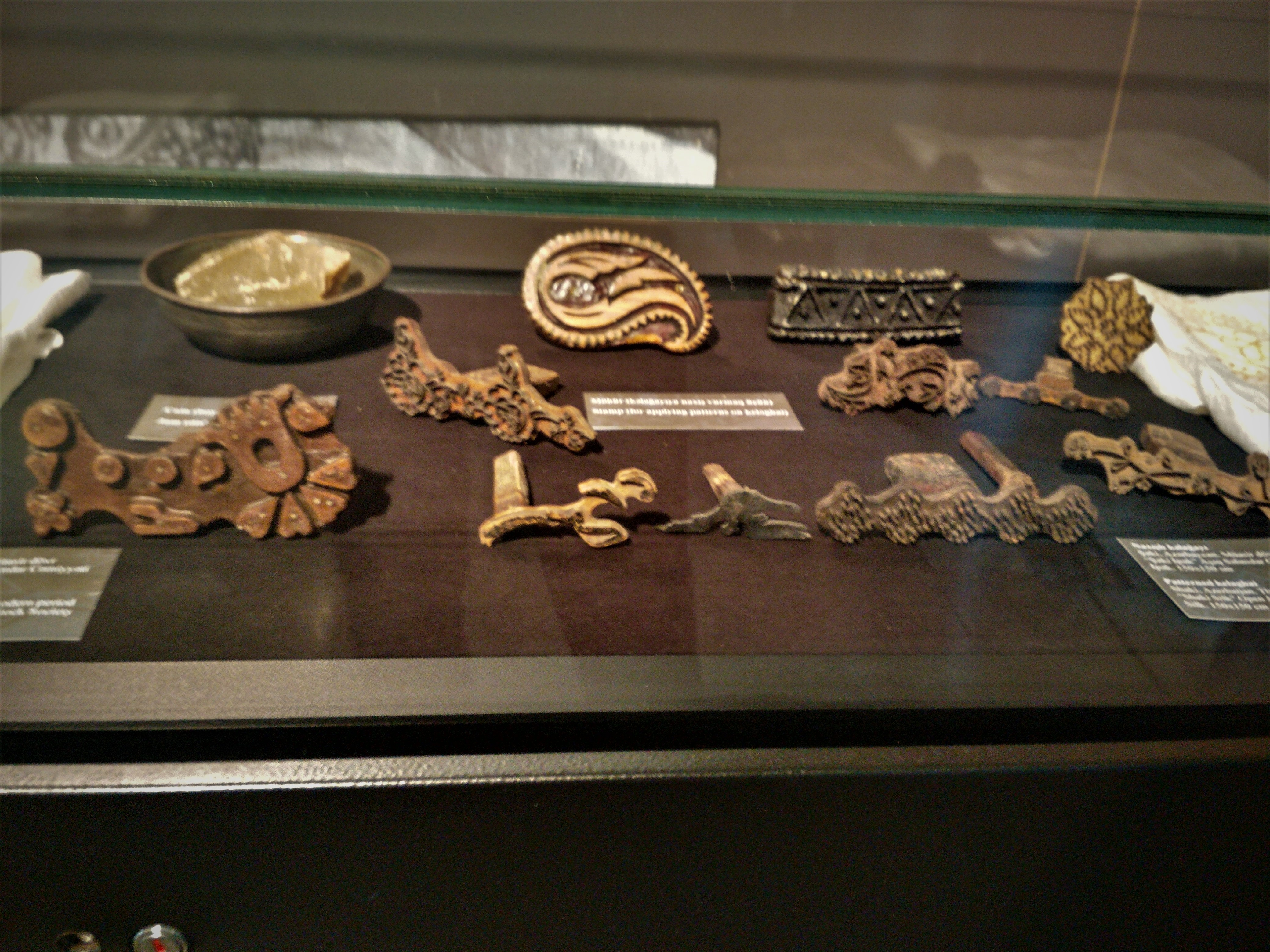 Stamp for applying patterns on kelaghai.This stamps are called Galib and made from pear, nut and wild apple trees